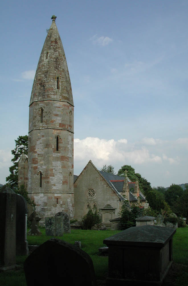 St Michael the Archangel parish church, Llanyblodwel, Shropshire, England, seen from the west